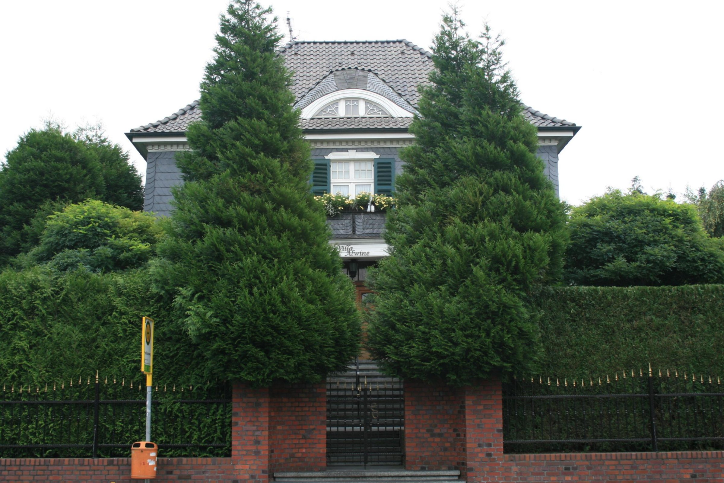 Cultural heritage monument No. A 017 in Mönchengladbach